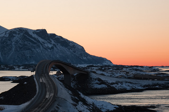 Not satisfied with the exposure, but I love the color on in the sky, so I just had to upload it